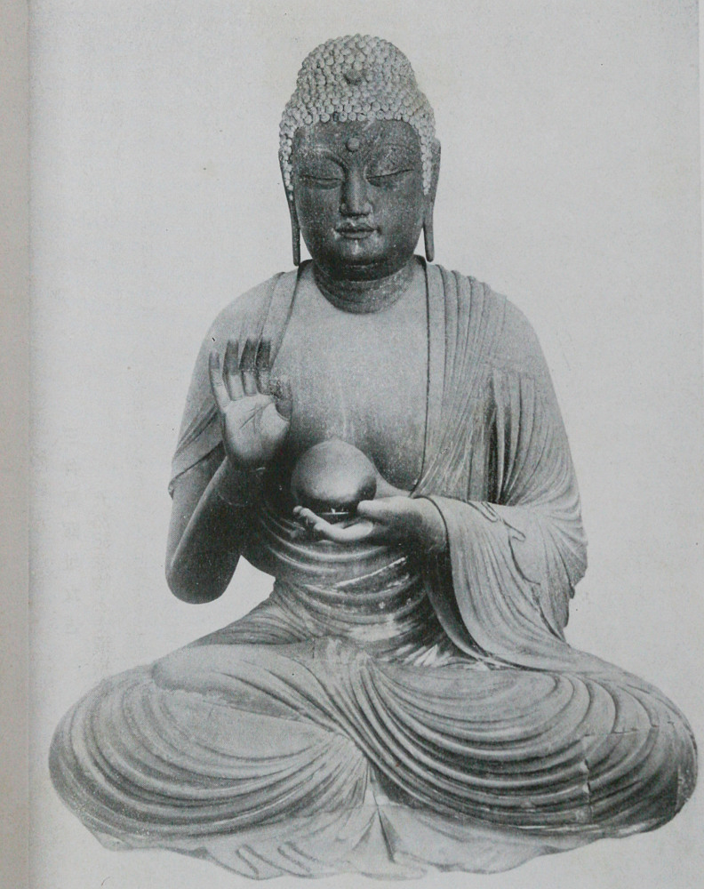 Yakushi Nyorai(Bhaisajyaguru) wood, 92.9 cm height, Heian period, around ACE900 ,Shishikutsu-ji , Katano, Osaka, Japan